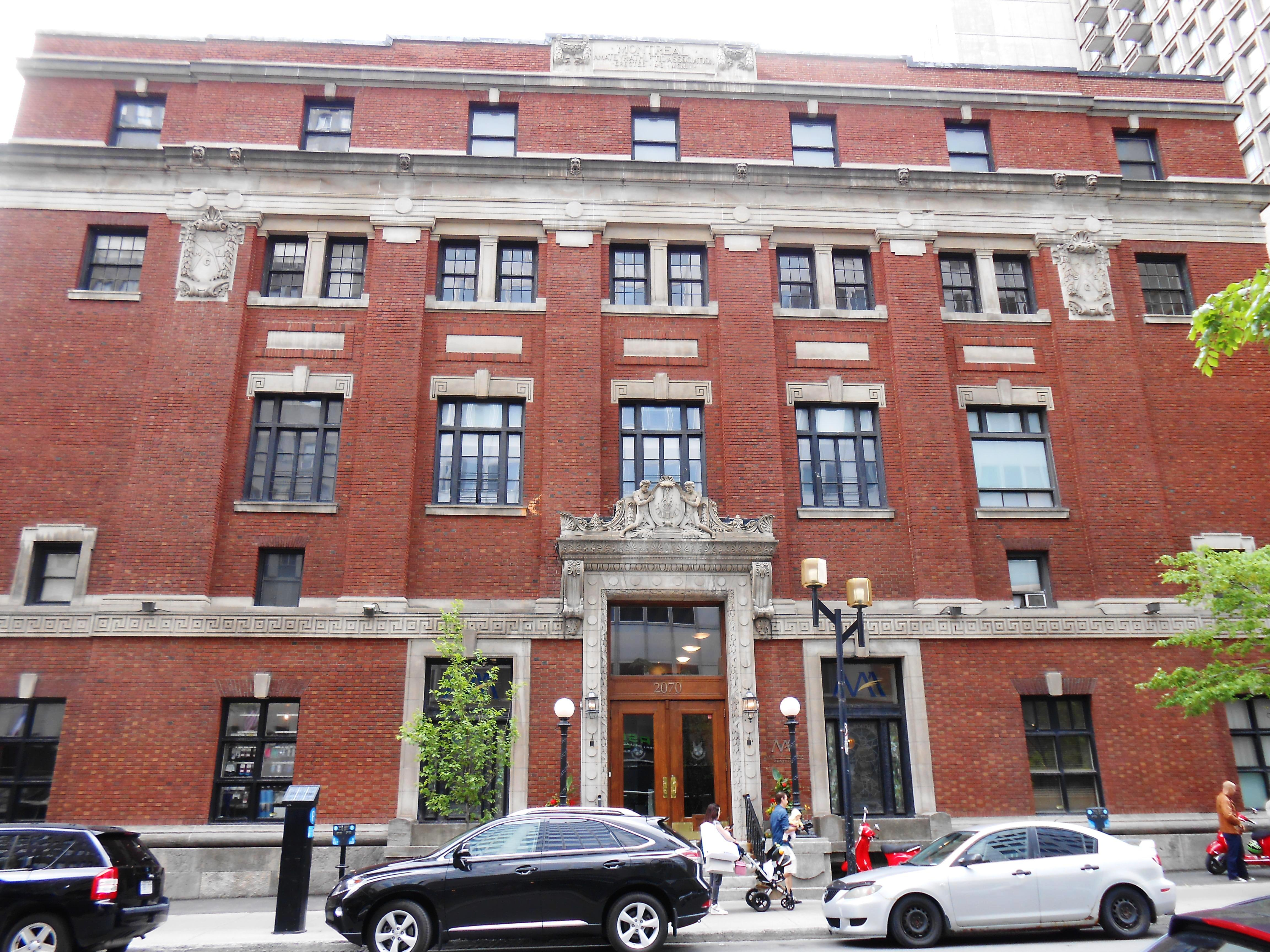 Montreal Amateur Athletic Association, 2070 Peel Street, Montreal, Quebec, Canada